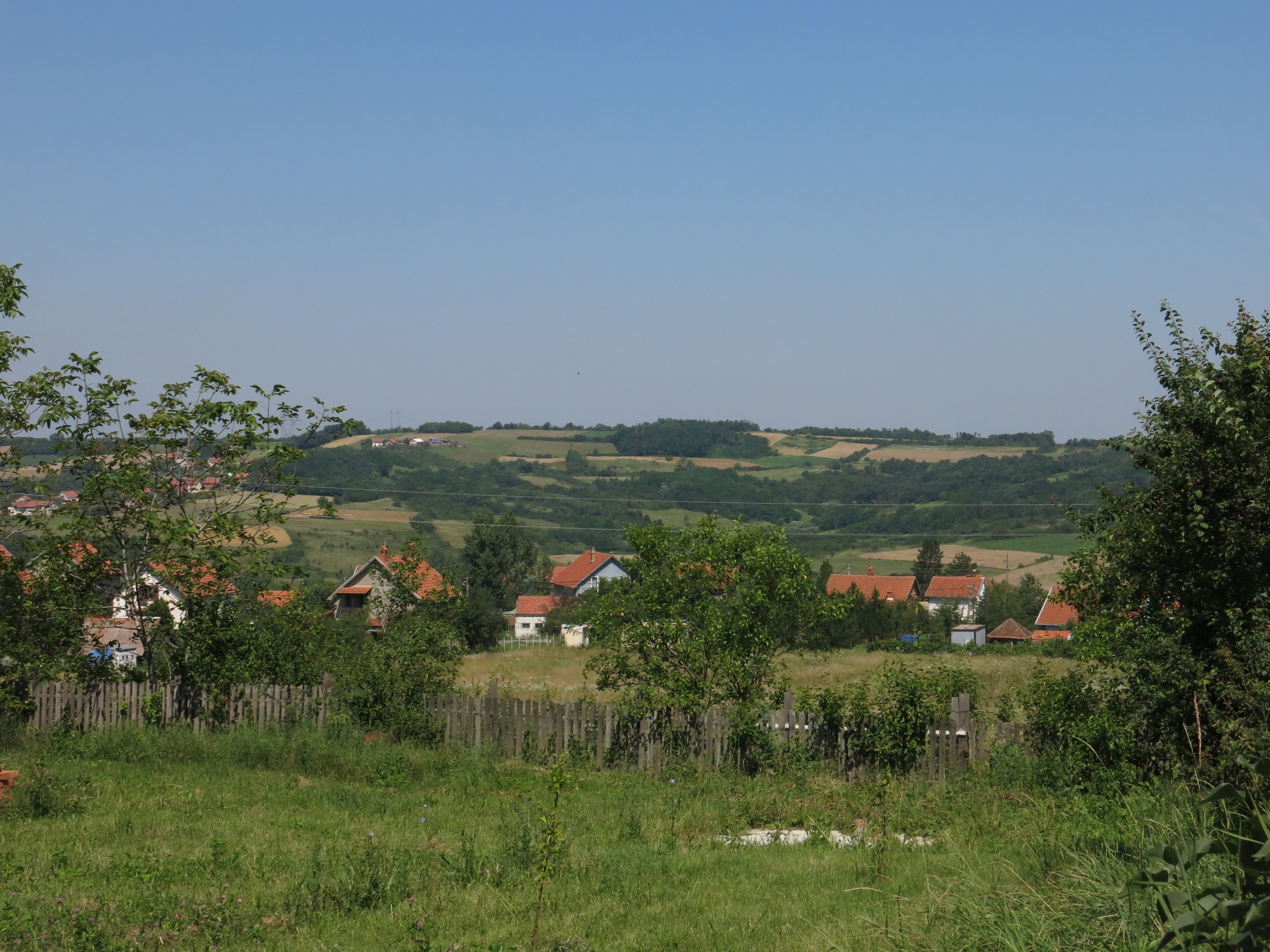 Meljak, Village part